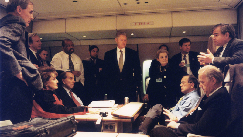 President Bill Clinton aboard Air Force One en route to Bosnia, December 22, 1997 with officials including Secretary of State Madeline Albright, Senator Ted Stevens, Senator Joe Biden, Senator Joe Lieberman, former Senator Bob Dole, future Senator Elizabeth Dole and National Security Advisor Sandy Berger.